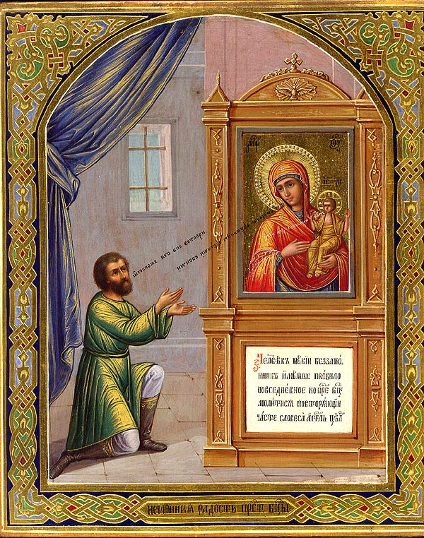 Our Lady the Unexpected Joy